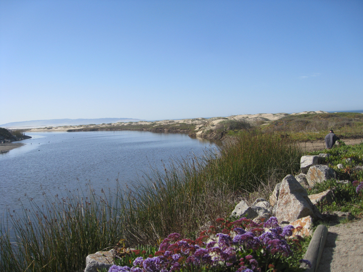 Pismo Creek estuary, Pismo Beach. taken from Addie Street.